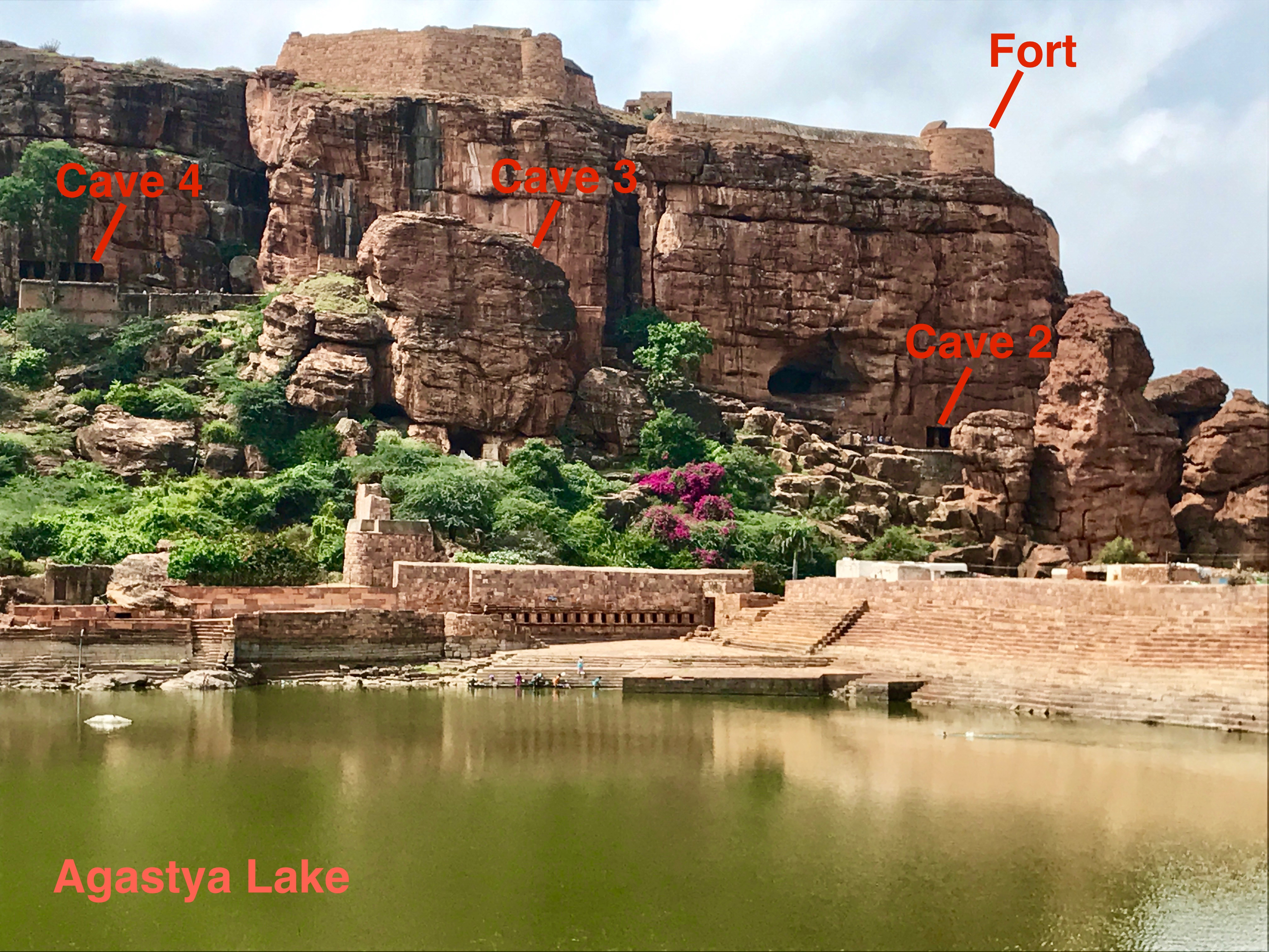 Badami cave temples were carved into the stone mountain face in the 6th to 7th centuries. The last enhancements were to Jain cave 4 in 11th and 12th century. The fort is more recent, and was built between 16th and 18th centuries during a period of Hindu-Muslim wars, with most recent additions to the fort by Tipu Sultan.